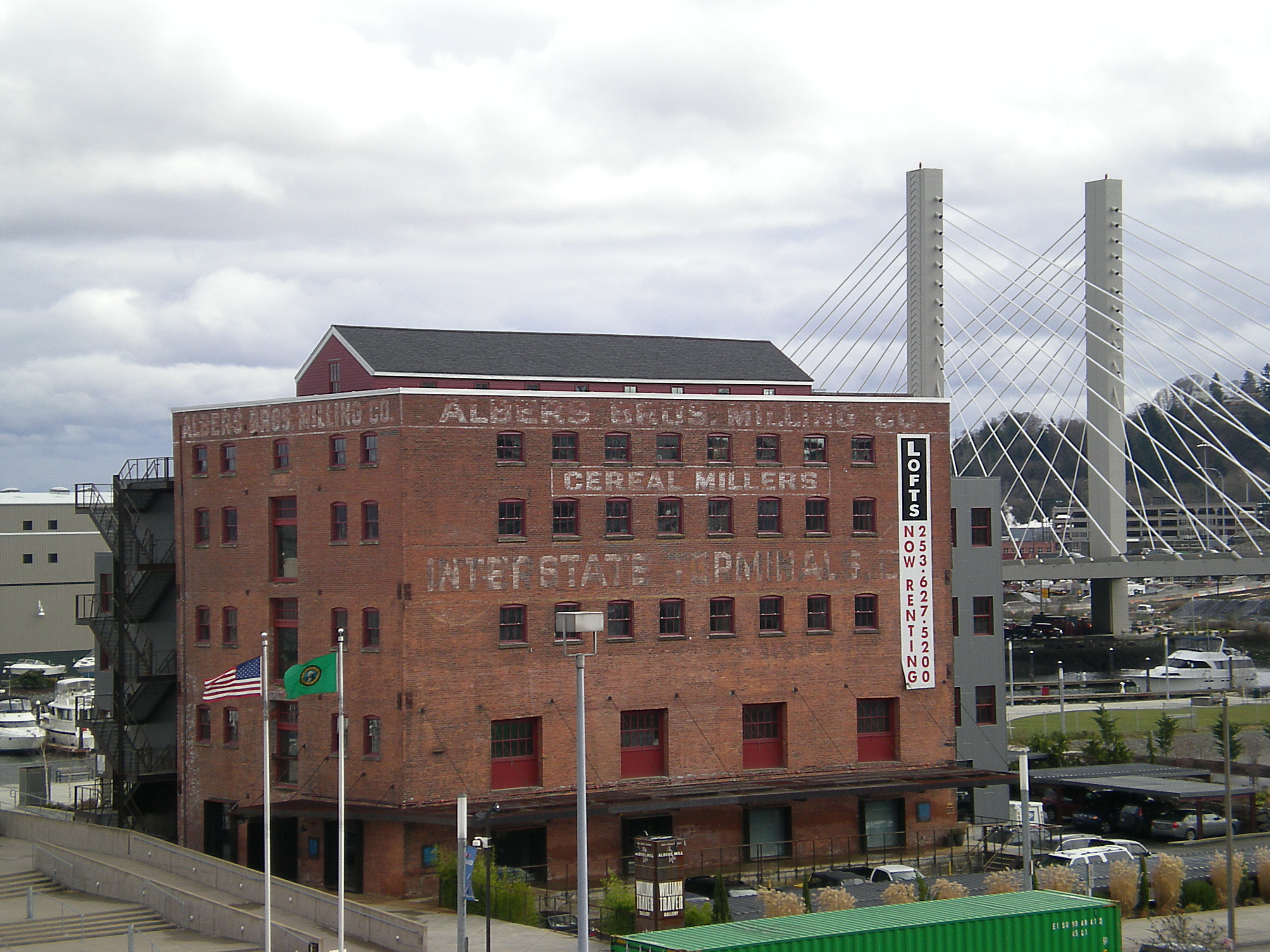 The former Albers Brothers Mill in Tacoma, Washington